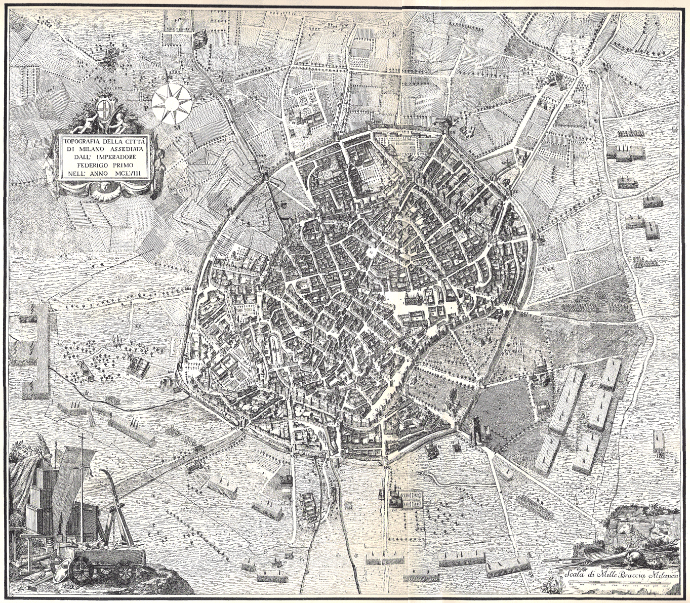 Milan Topography on 1158